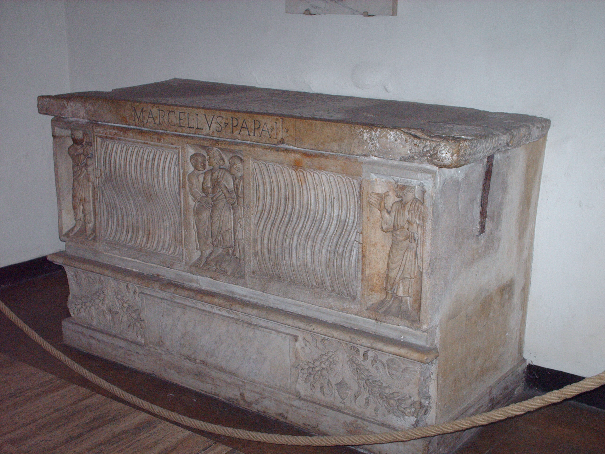 Tomb of Marcellus II, "grotte vaticane", Basilica di San Pietro